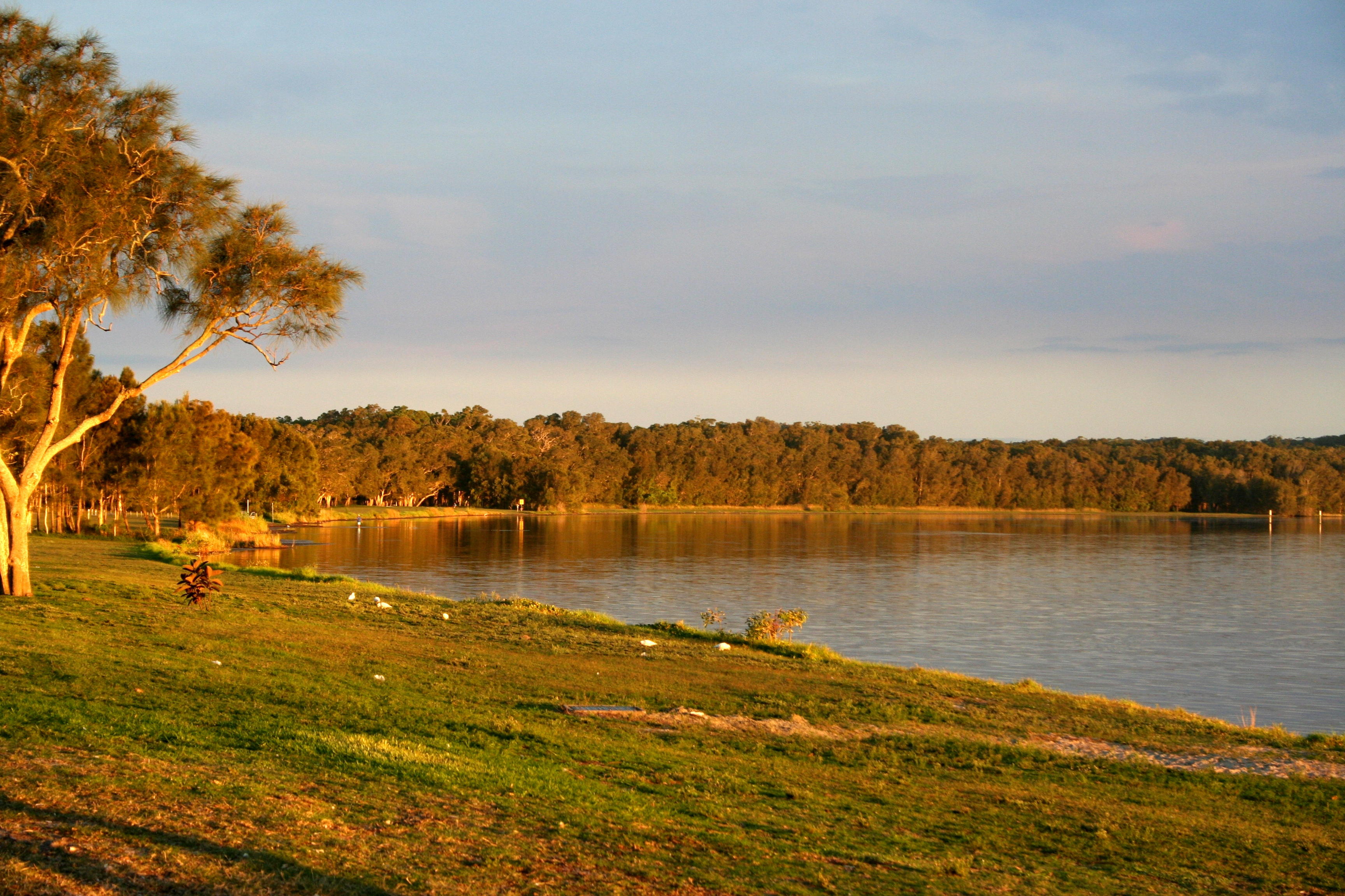 This photo was taken of the Canton Beach shoreline near the playground in late afternoon sunlight looking south.